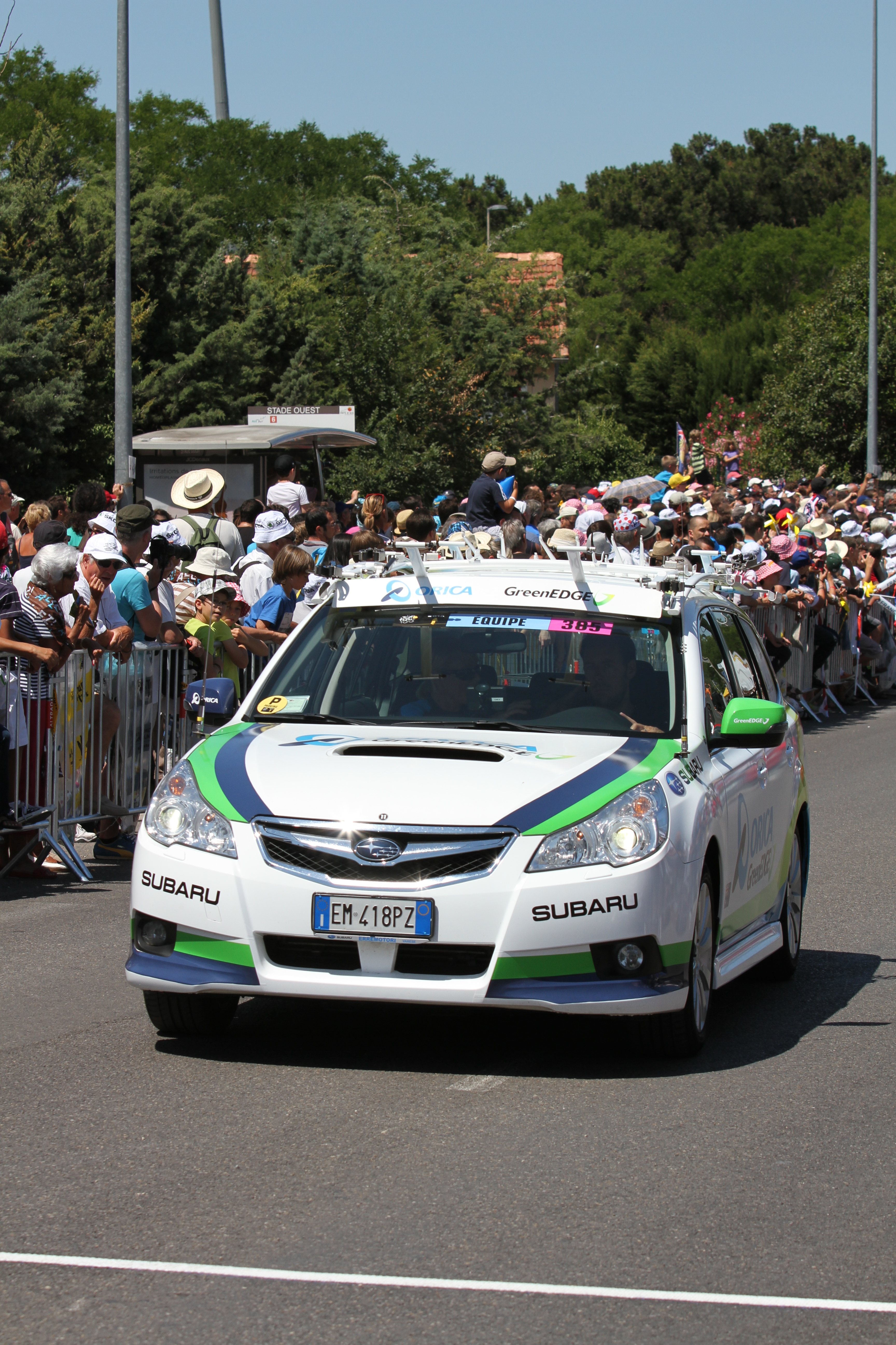 Stage 6 of the Tour de France 2013, at Aix-en-Provence (Bouches-du-Rhône, France)